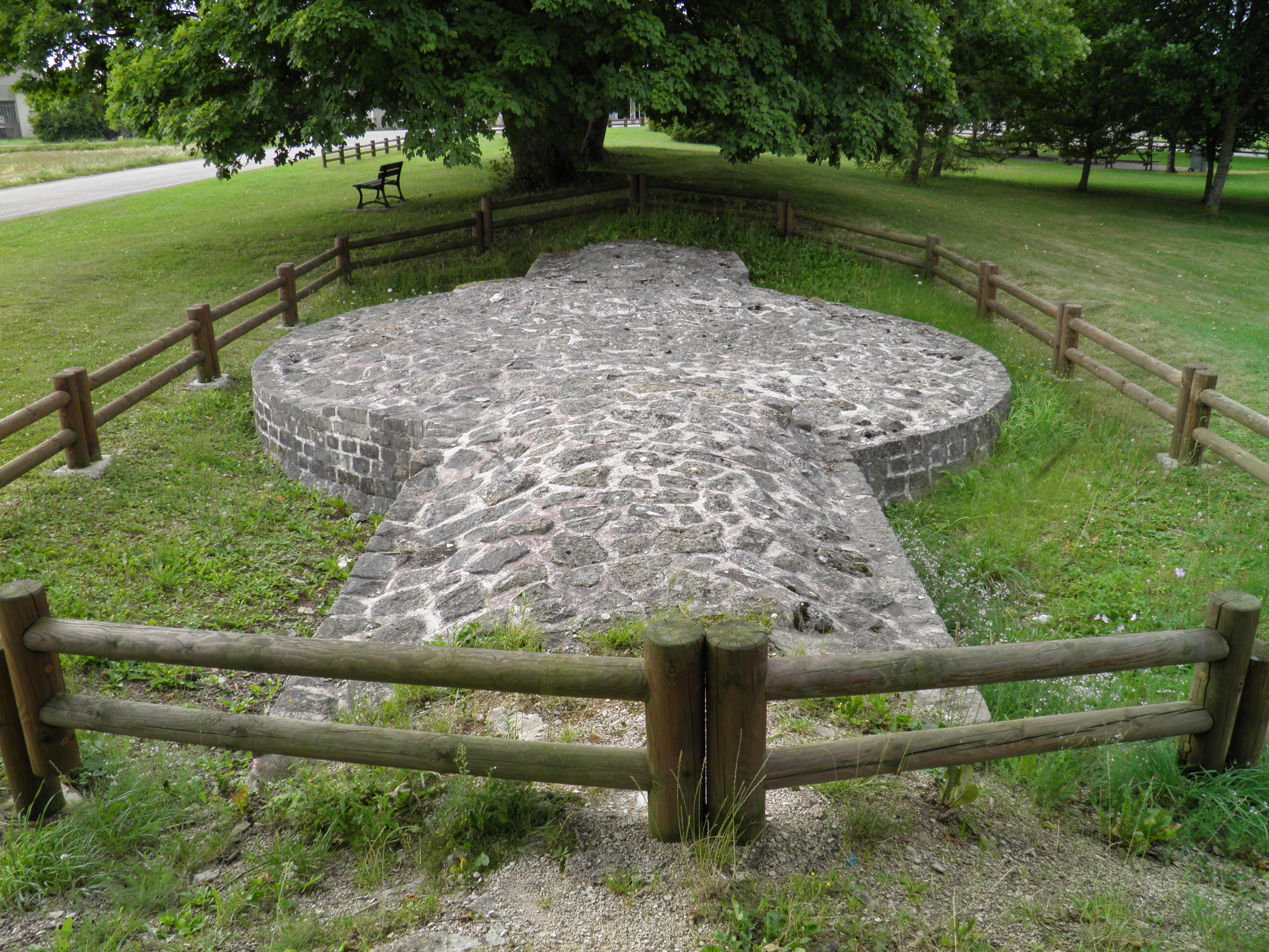 The Rampart and the Gate of Water, Grand (Andesina), France